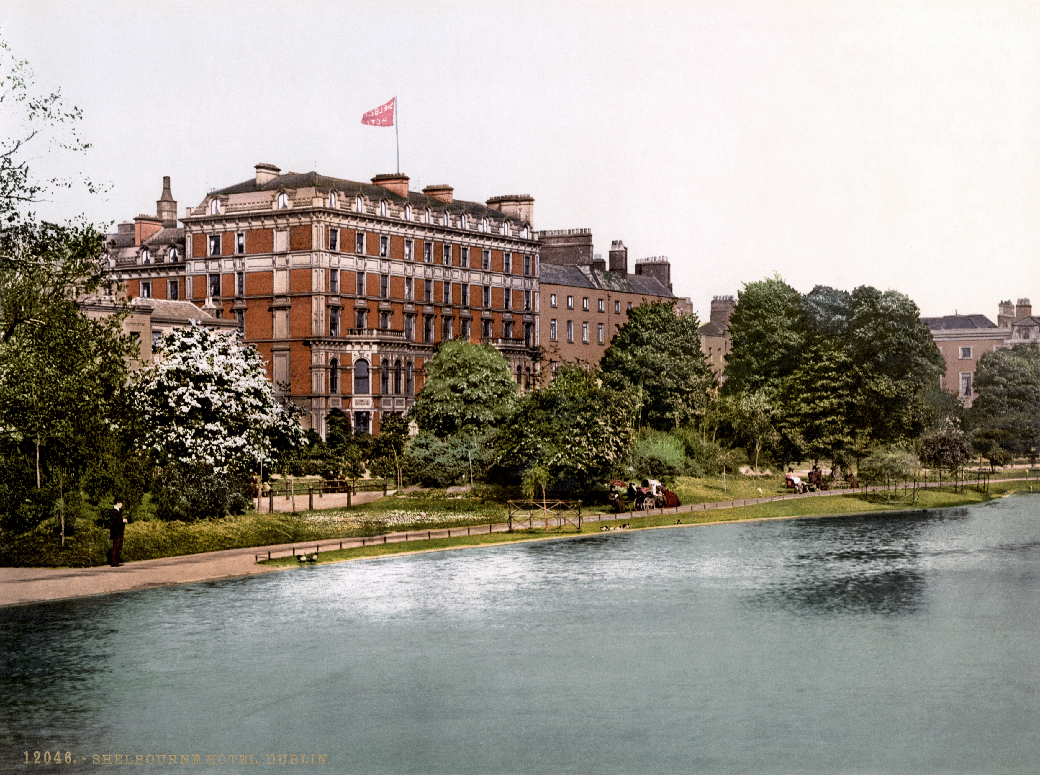 Shelbourne Hotel, Dublin, Co. Dublin, Ireland. Detroit Publishing Co., Print no. 12046